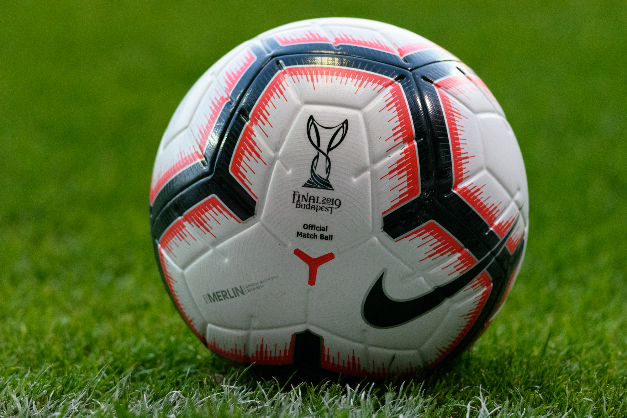 Official 2019 UEFA Women's Champions League match ball